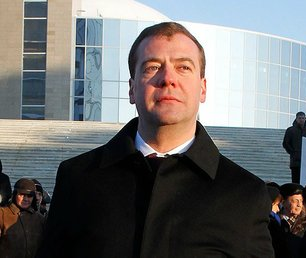 President of Russia Dmitri Medvedev in front of the Boris Yeltsin memorial in Yekaterinburg, Sverdlovsk Oblast, Russia.